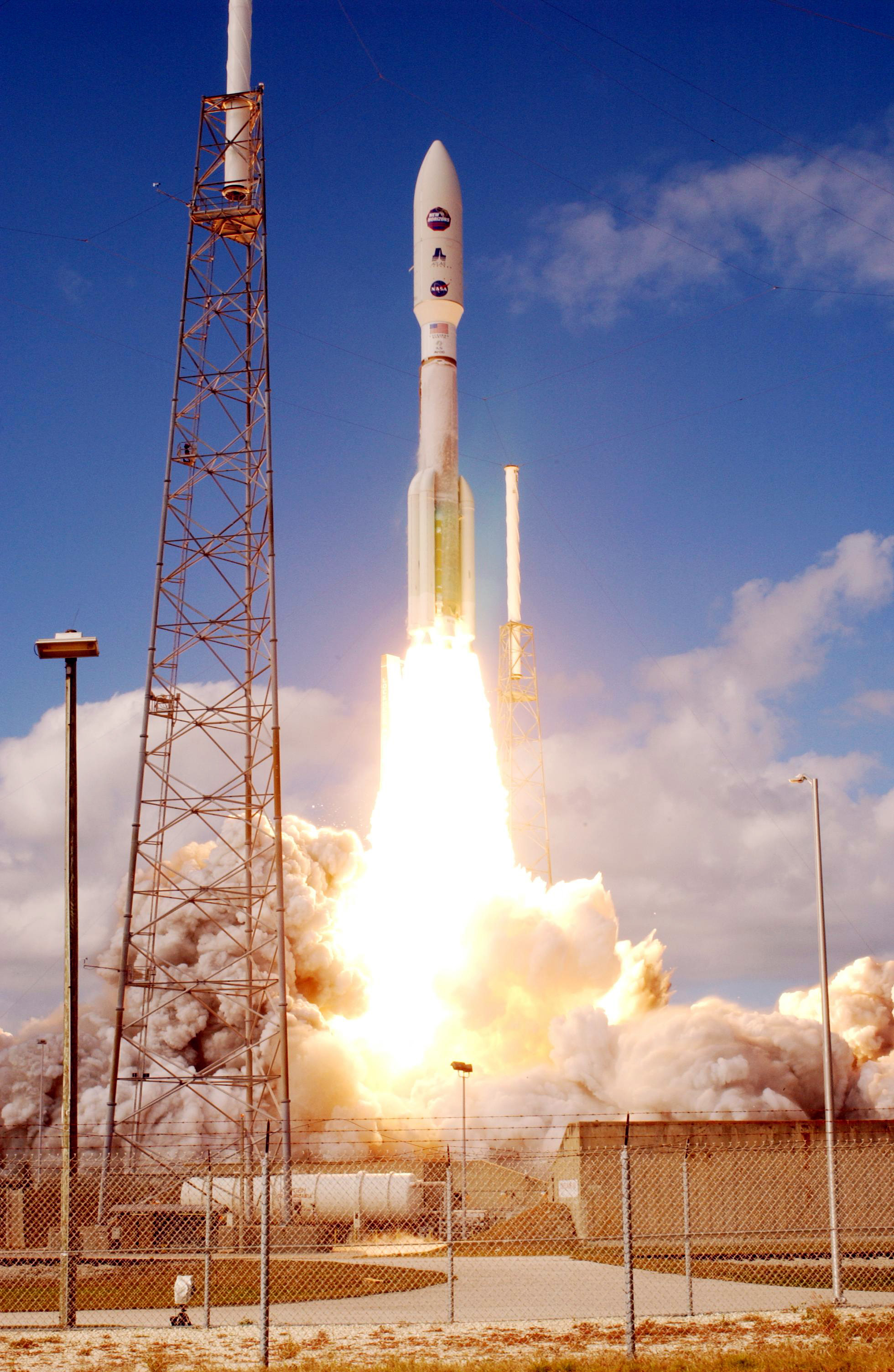 From between lightning masts surrounding the launch pad, NASA’s New Horizons spacecraft roars into the blue sky aboard an Atlas V rocket spewing flames and smoke. Liftoff was on time at 2 p.m. EST from Complex 41 on Cape Canaveral Air Force Station in Florida. This was the third launch attempt in as many days after scrubs due to weather concerns. The compact, 1,050-pound piano-sized probe will get a boost from a kick-stage solid propellant motor for its journey to Pluto. New Horizons will be the fastest spacecraft ever launched, reaching lunar orbit distance in just nine hours and passing Jupiter 13 months later. The New Horizons science payload, developed under direction of Southwest Research Institute, includes imaging infrared and ultraviolet spectrometers, a multi-color camera, a long-range telescopic camera, two particle spectrometers, a space-dust detector and a radio science experiment. The dust counter was designed and built by students at the University of Colorado, Boulder. The launch at this time allows New Horizons to fly past Jupiter in early 2007 and use the planet’s gravity as a slingshot toward Pluto. The Jupiter flyby trims the trip to Pluto by as many as five years and provides opportunities to test the spacecraft’s instruments and flyby capabilities on the Jupiter system. New Horizons could reach the Pluto system as early as mid-2015, conducting a five-month-long study possible only from the close-up vantage of a spacecraft.